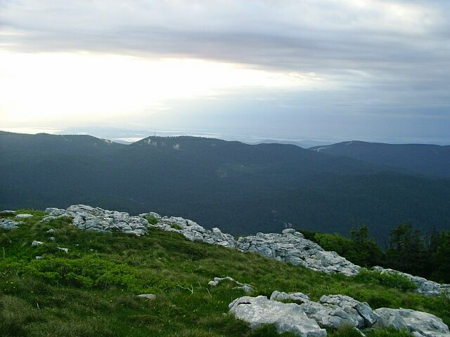 Bjelolasica hills in Croatia